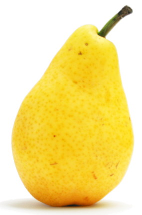 A pear